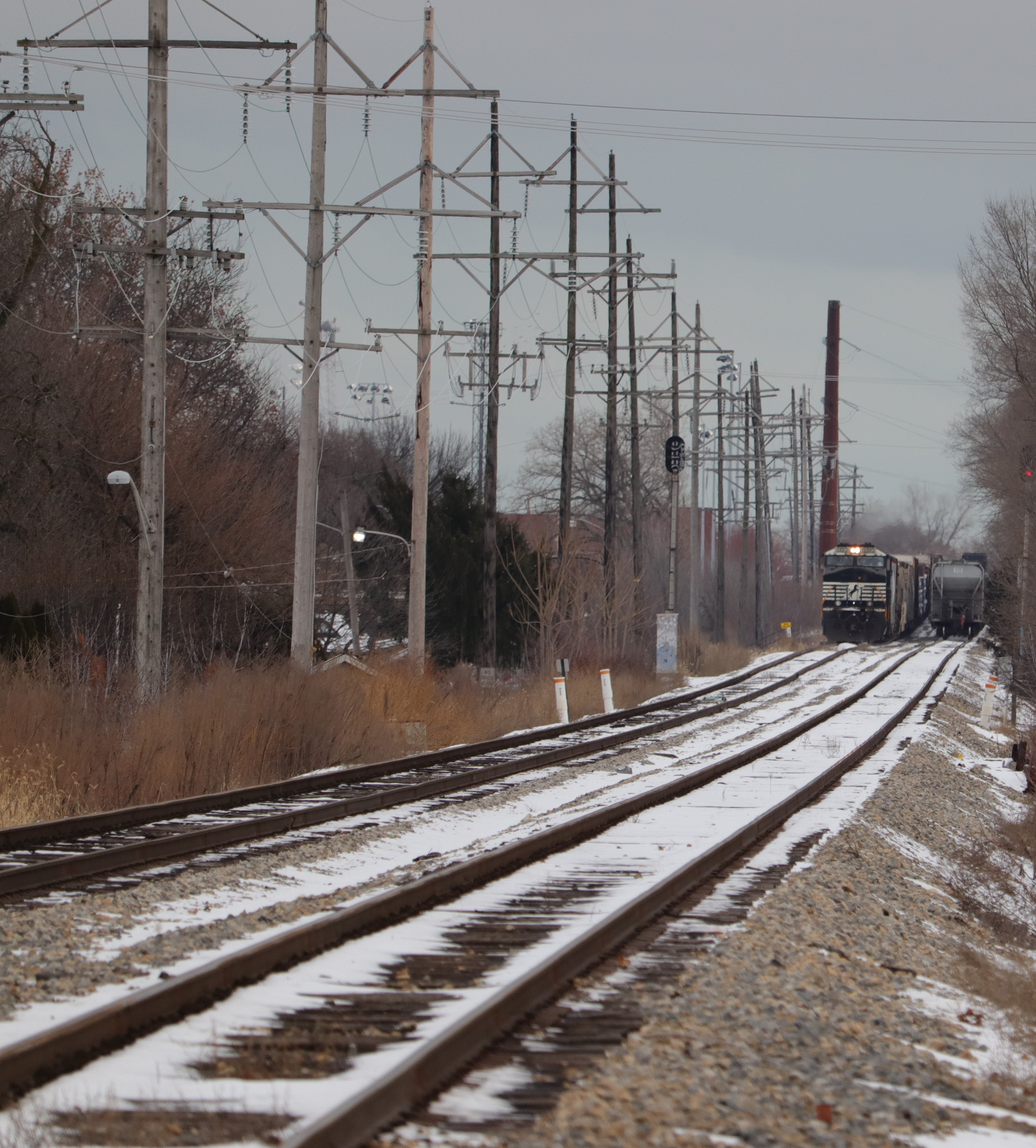 Here is the CN Freeport Sub, as seen from Berwyn. This was taken from just outside the Berwyn Public Library. The train parked off in the distance is M337, a daily manifest train.